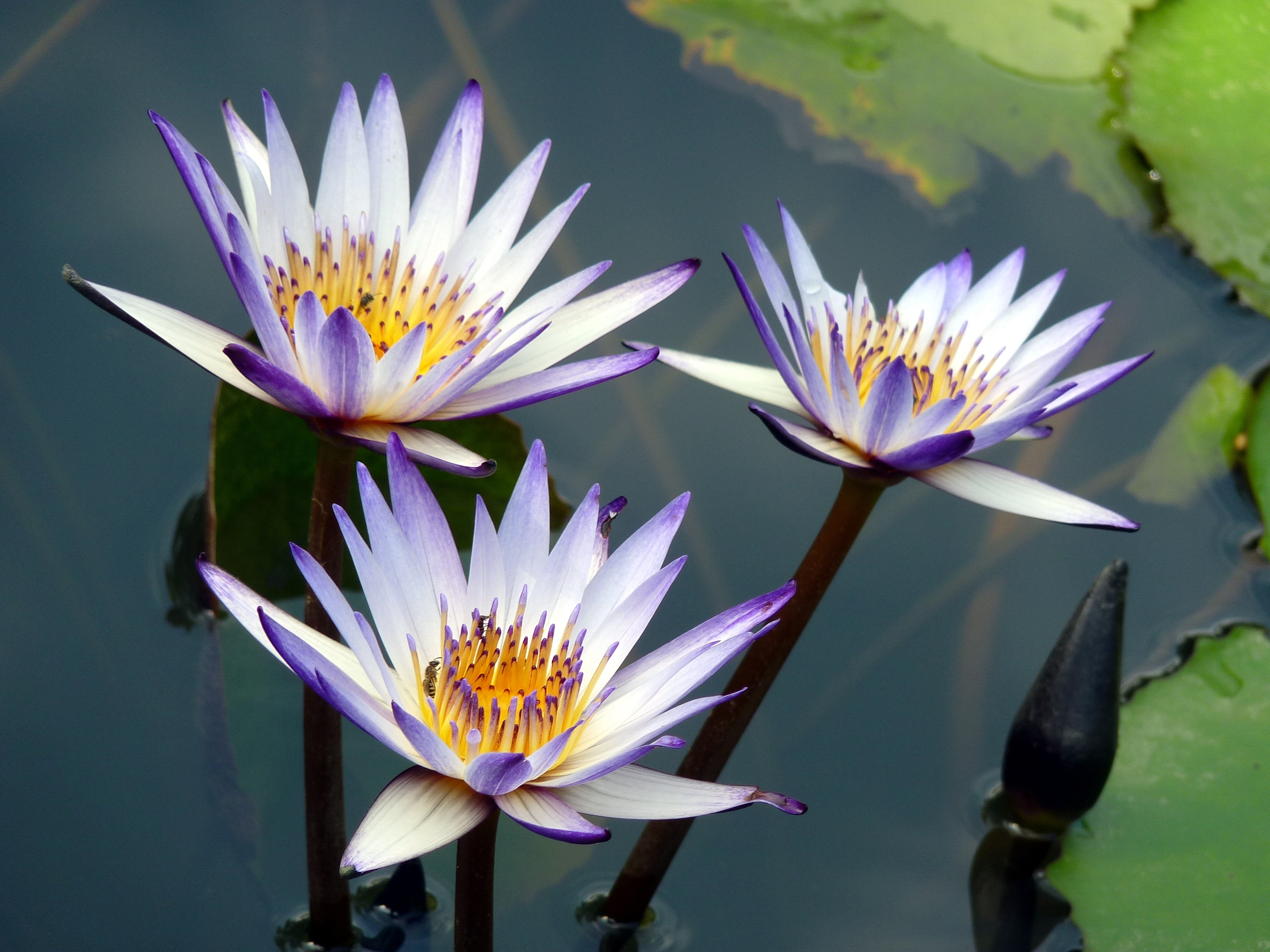 睡蓮 Water Lily， Nymphaea